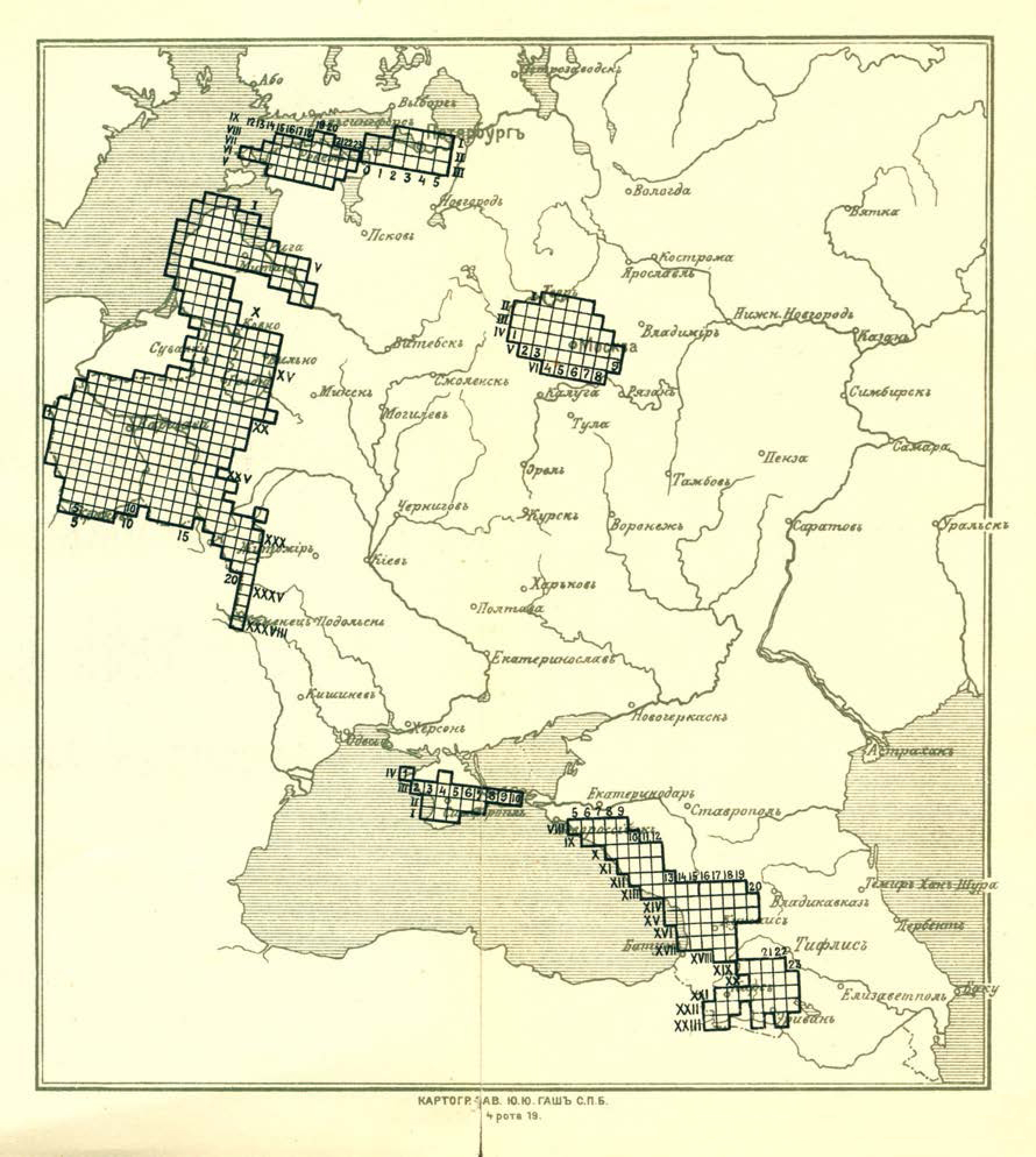 Map of the Russian Imperia's Euroian part 2 verst